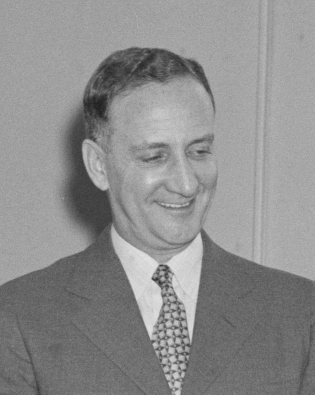 Alfonso Valdez